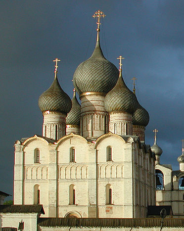 Partial view of the Kremlin of Rostov, Yaroslavl Oblast.